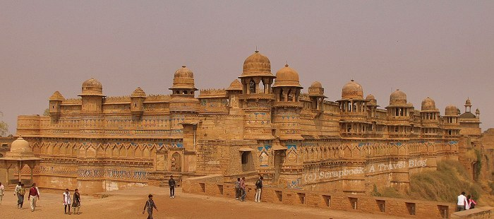 दृश्य